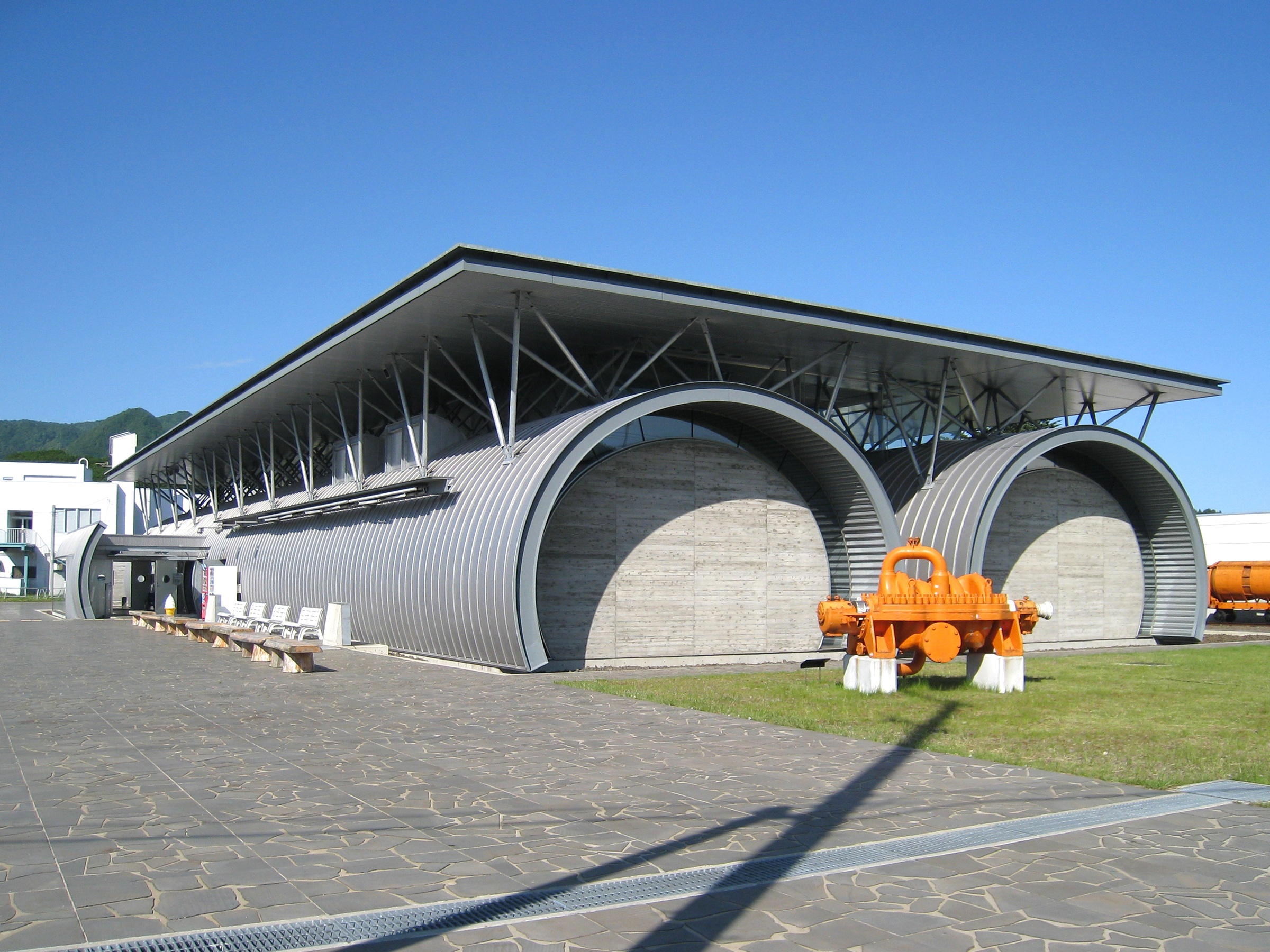 Seikan Tunnel Museum of Fukushima Town, this photo was taken in June 12, 2008